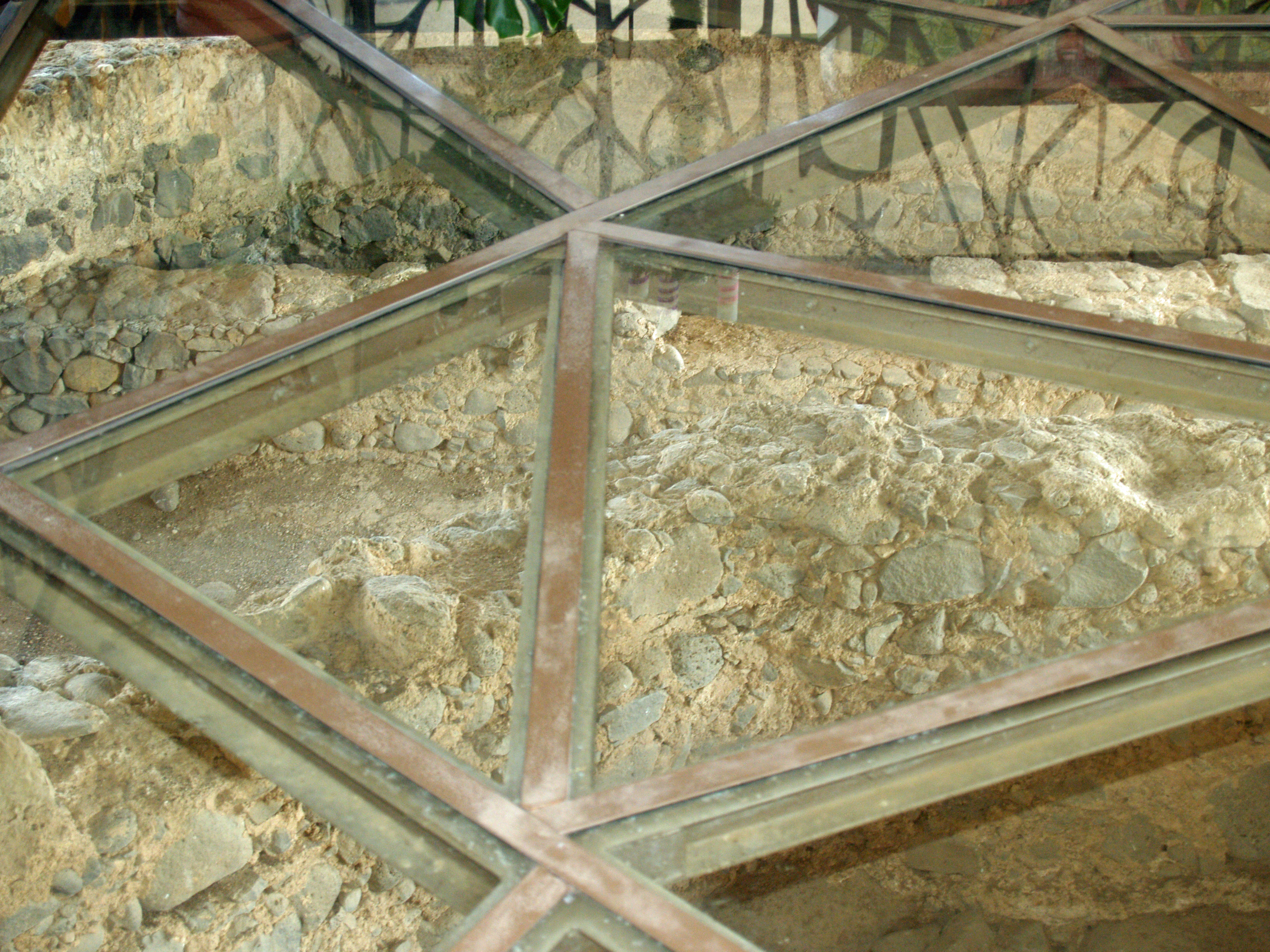 Ruins of original Catholic church in Capernaum; located inside the modern church, and enclosed in glass.